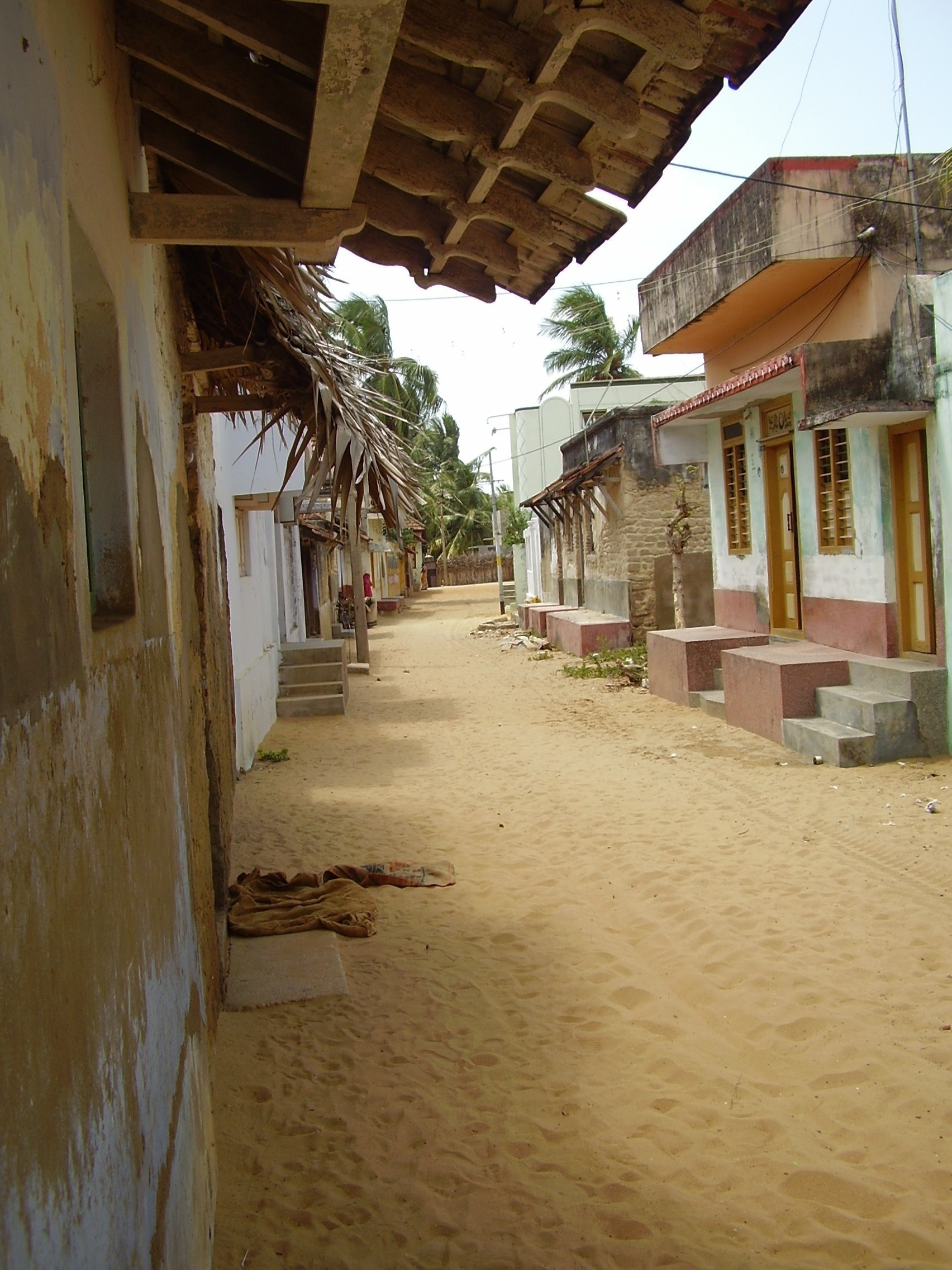 PUDUMADAM.